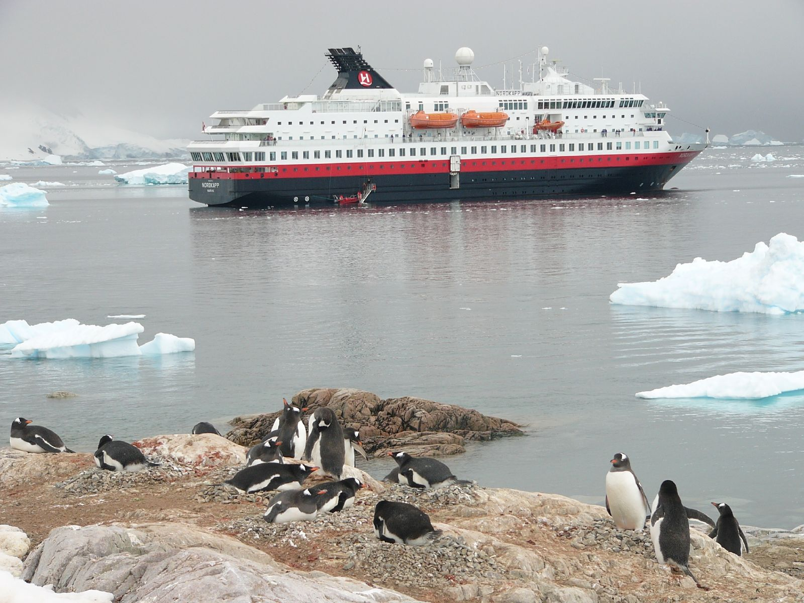 MS Nordkapp in Neko Bay - Antarctica